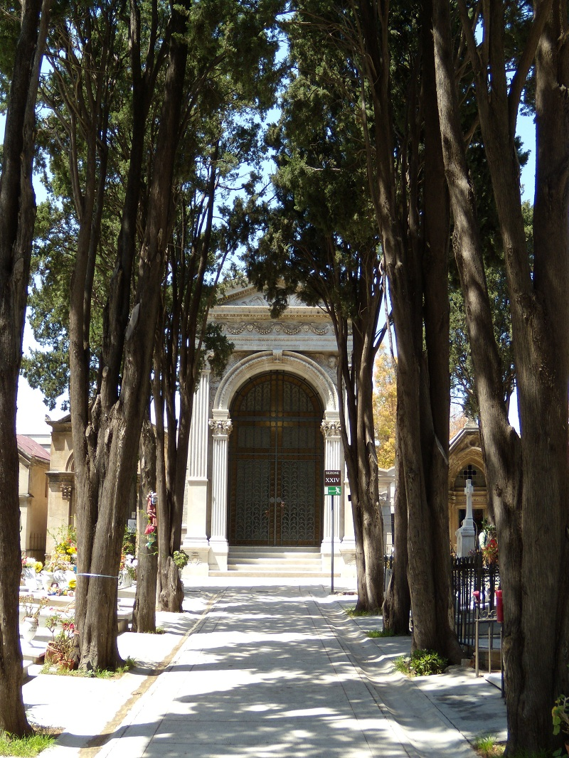 Cappuccini Cemetery in Palermo (Sicily)